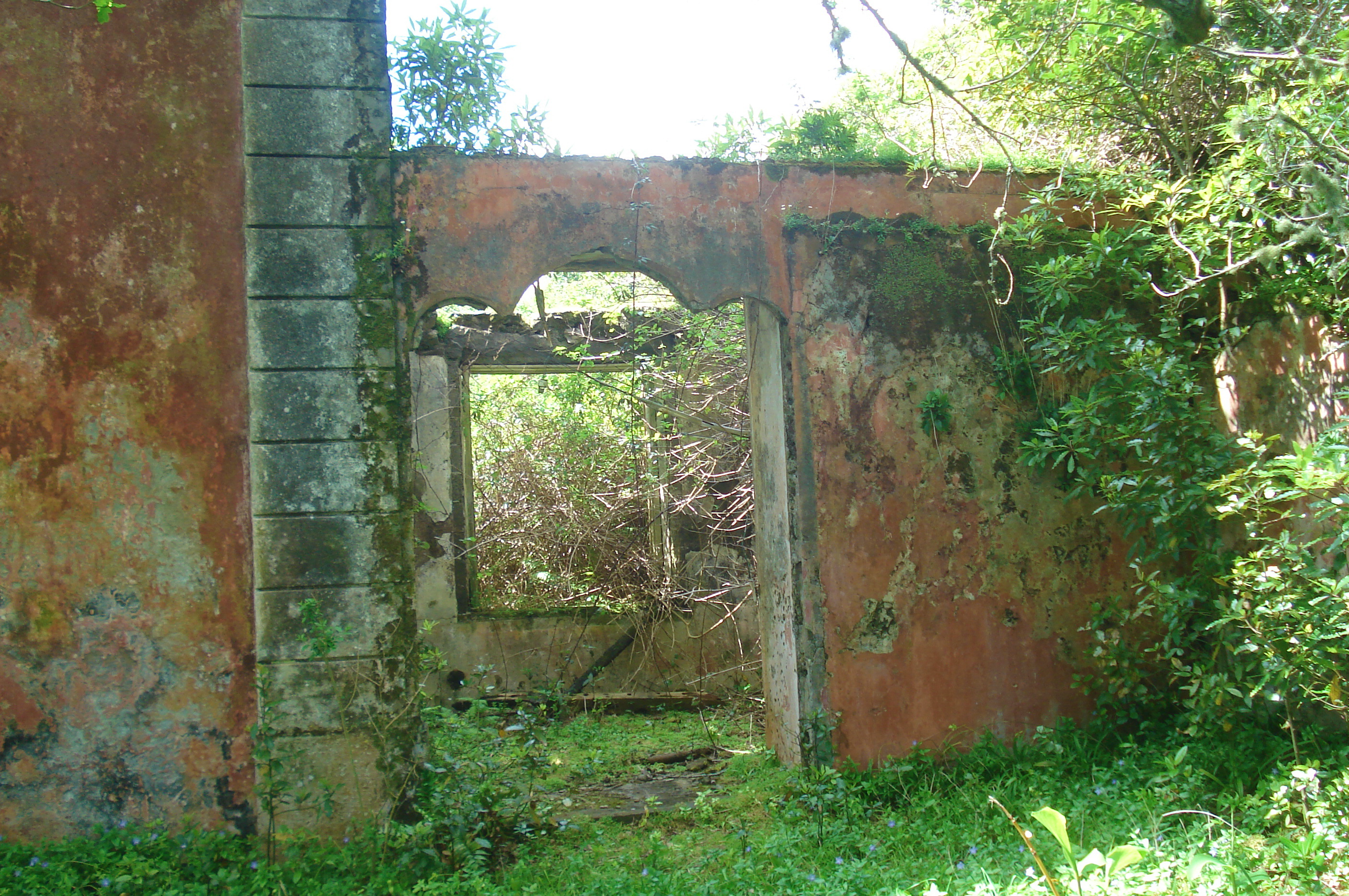 The servants' entrance and access to the kitchen in the Palacete of Pilar in the civil parish of Conceição, municipality of Horta (Azores), Portugal